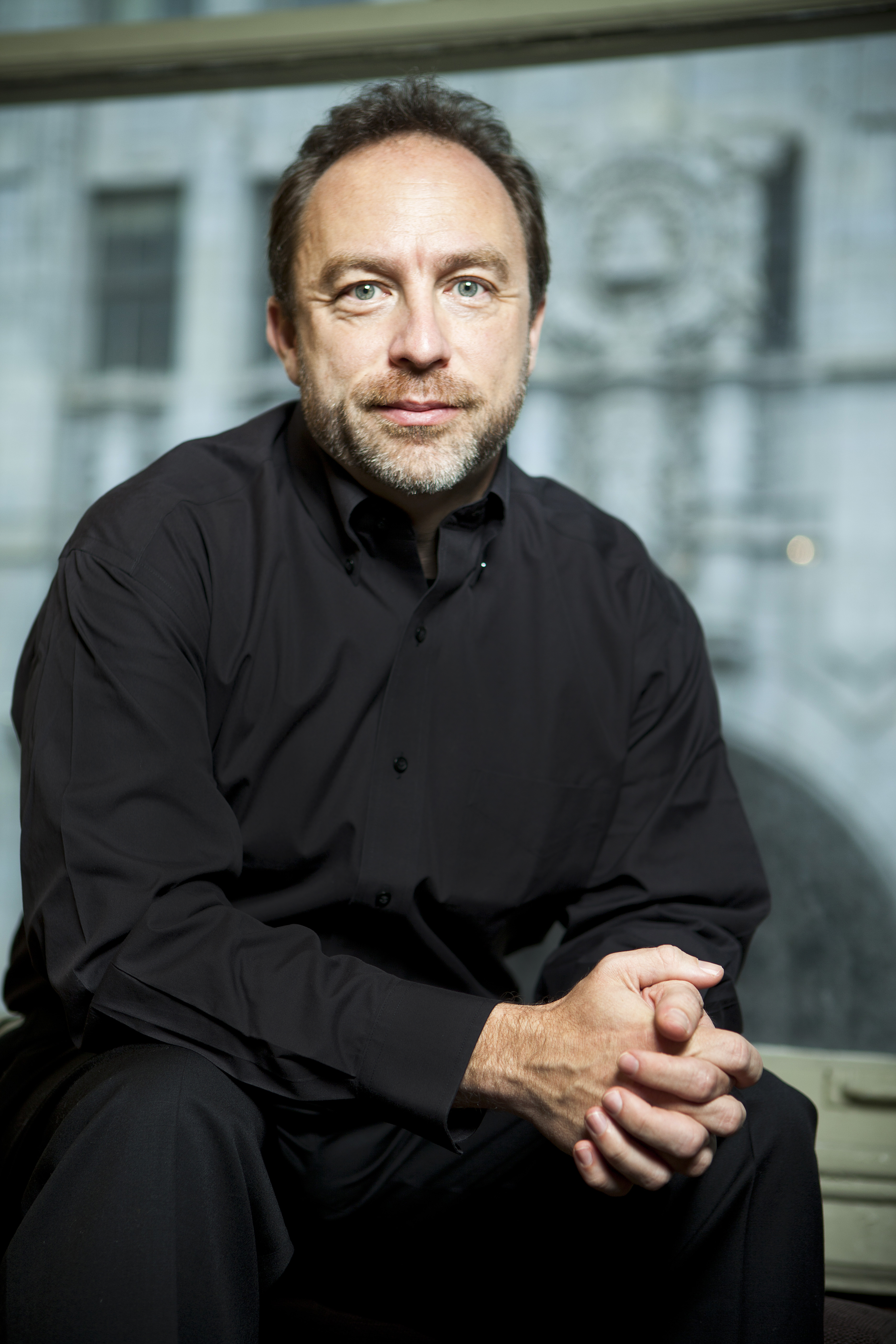 Portrait photograph of Jimmy Wales